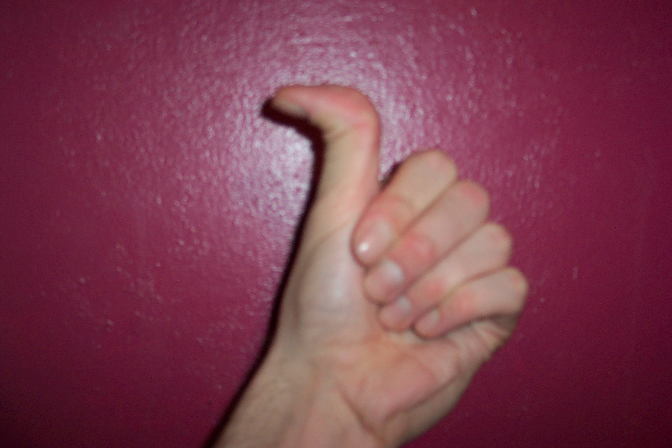 Sam Smith, left thumb bent further back than normal (hypermobility)